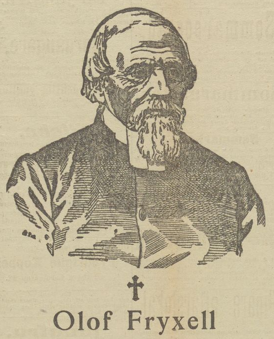 Obituary engraving of the Swedish clergyman Olof Fryxell (1806-1900), by an anonymous artist. Published in the newspaper Göteborgs Aftonblad 1900-04-14 (87A), p. 3